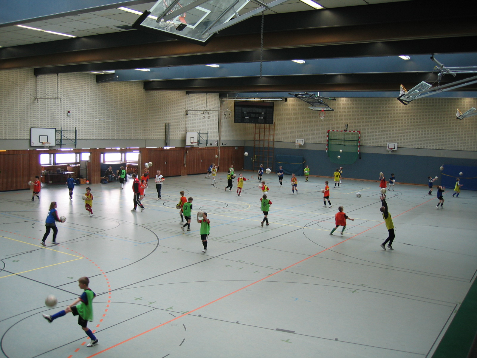 Description: Sporthalle "Hemberg" in Iserlohn Source: selbst fotografiert Date: 15. März 2006 Author: Bubo